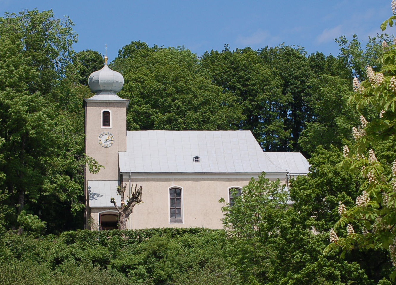 Parish and pilgrimage church of St. Corona am Schöpfl, Lower Austria